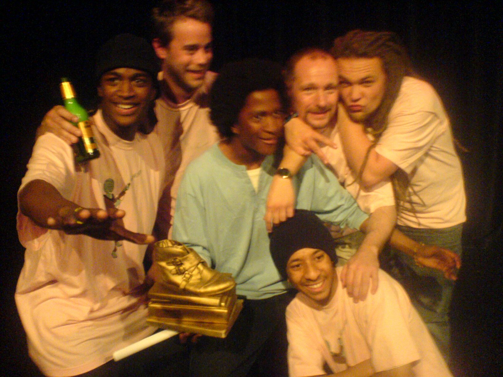 S.T.I.C.S after winning their first Swedish national poetry slam title. Standing along Oskar Hanska with friends.